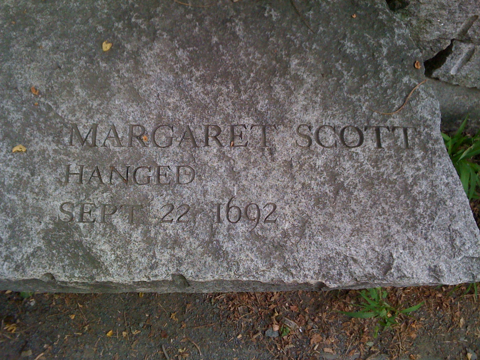 Margaret Scott's marker at the Witch Trials Memorial.